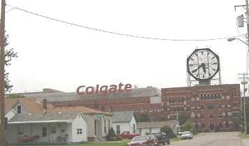 Abandoned Colgate Factory, with Clock, in Jeffersonville, Indiana.